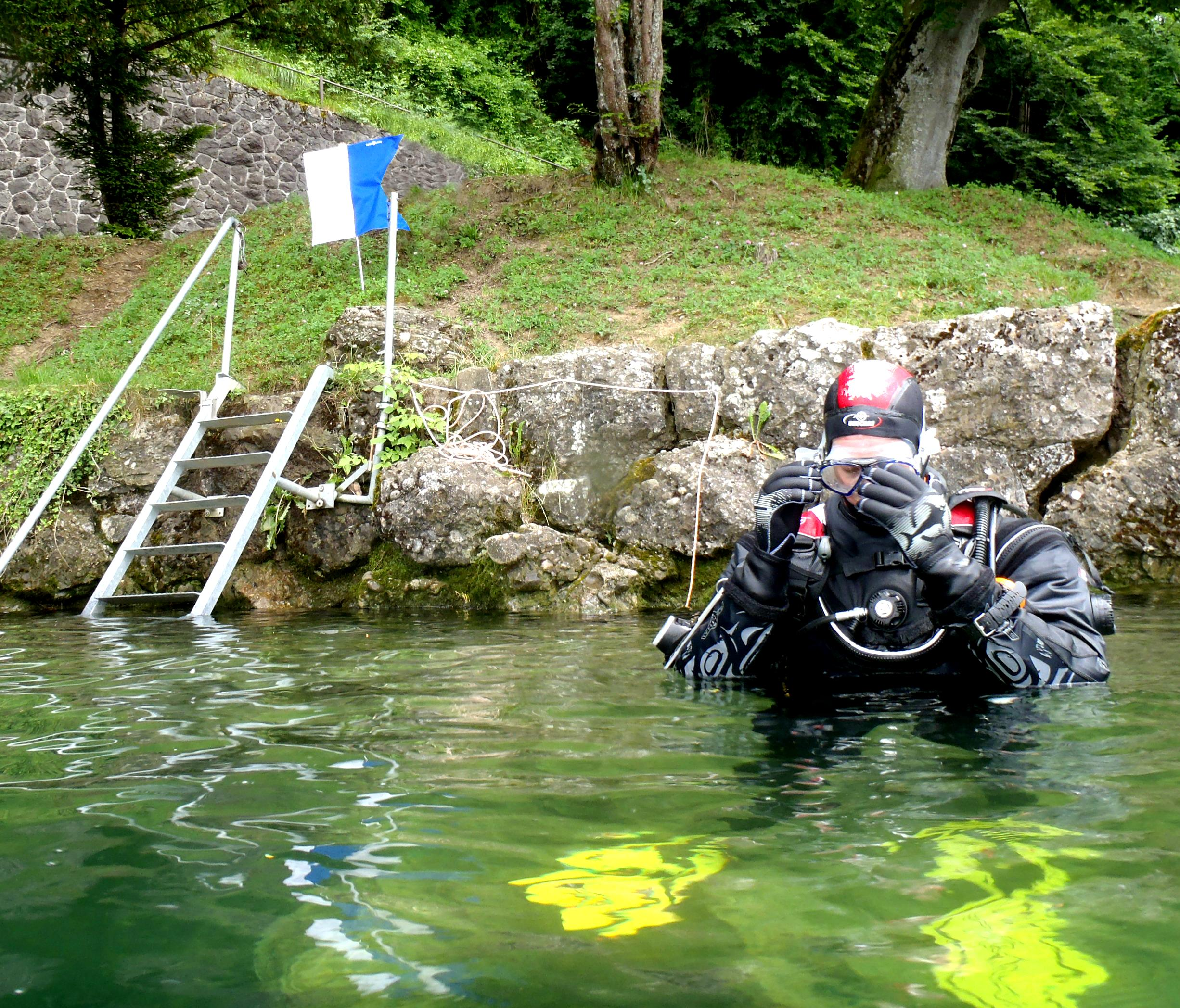 A diver getting ready for diving in front of an "alpha" diver down flag. Taken on Zugersee in Switzerland.